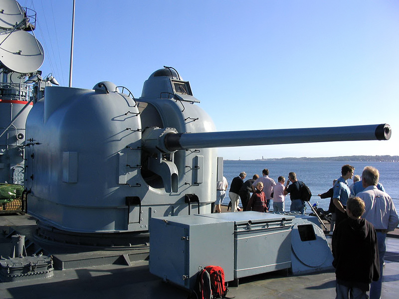 5"/54 caliber Mark 42 gun gun aboard the German guided missile destroyer Lütjens (D185).